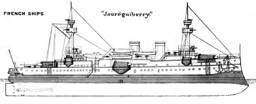 Right elevation diagrams showing external and internal layout of French battleship Jauréguiberry.